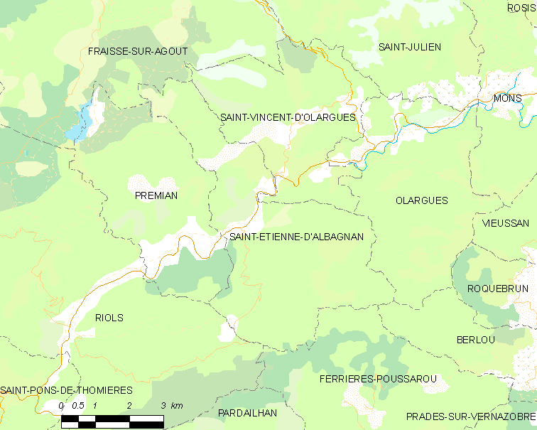 Map commune FR insee code 34250.png - Saint-Étienne-d'Albagnan